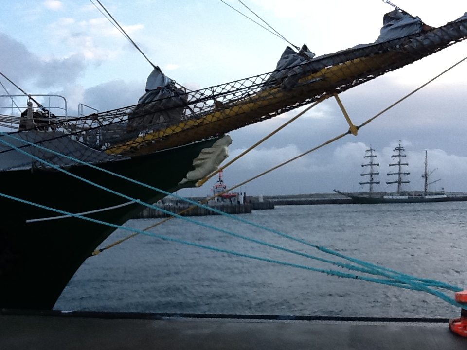 Seeking protection from heavy seas, the Tall Ship "Alexander von Humboldt" (back) meets its successor, the "Alexander von Humboldt II" (front) in the outer harbour of Heligoland.